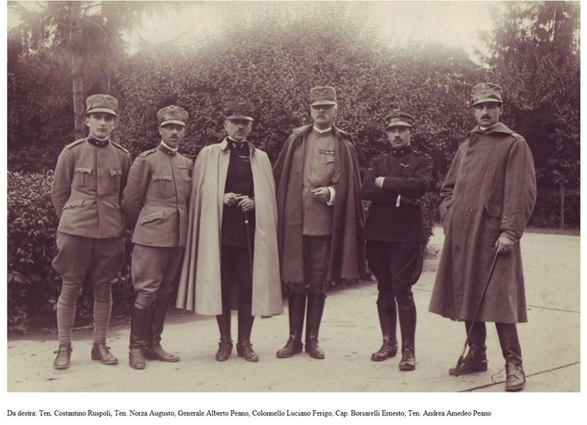 Several italian officers of the Italian Military Mission at the General Staff of the Romanian Army. From right to left: lieutenant Constantino Ruspoli, lieutenant Norza Augusto, general Alberto Peano (Italian Military Mission Commander), colonel Luciano Ferigo (the future commander of the Romanian Legion), captain Borsarelli Ernesto and lieutenant Andrea Amedeo Peano.